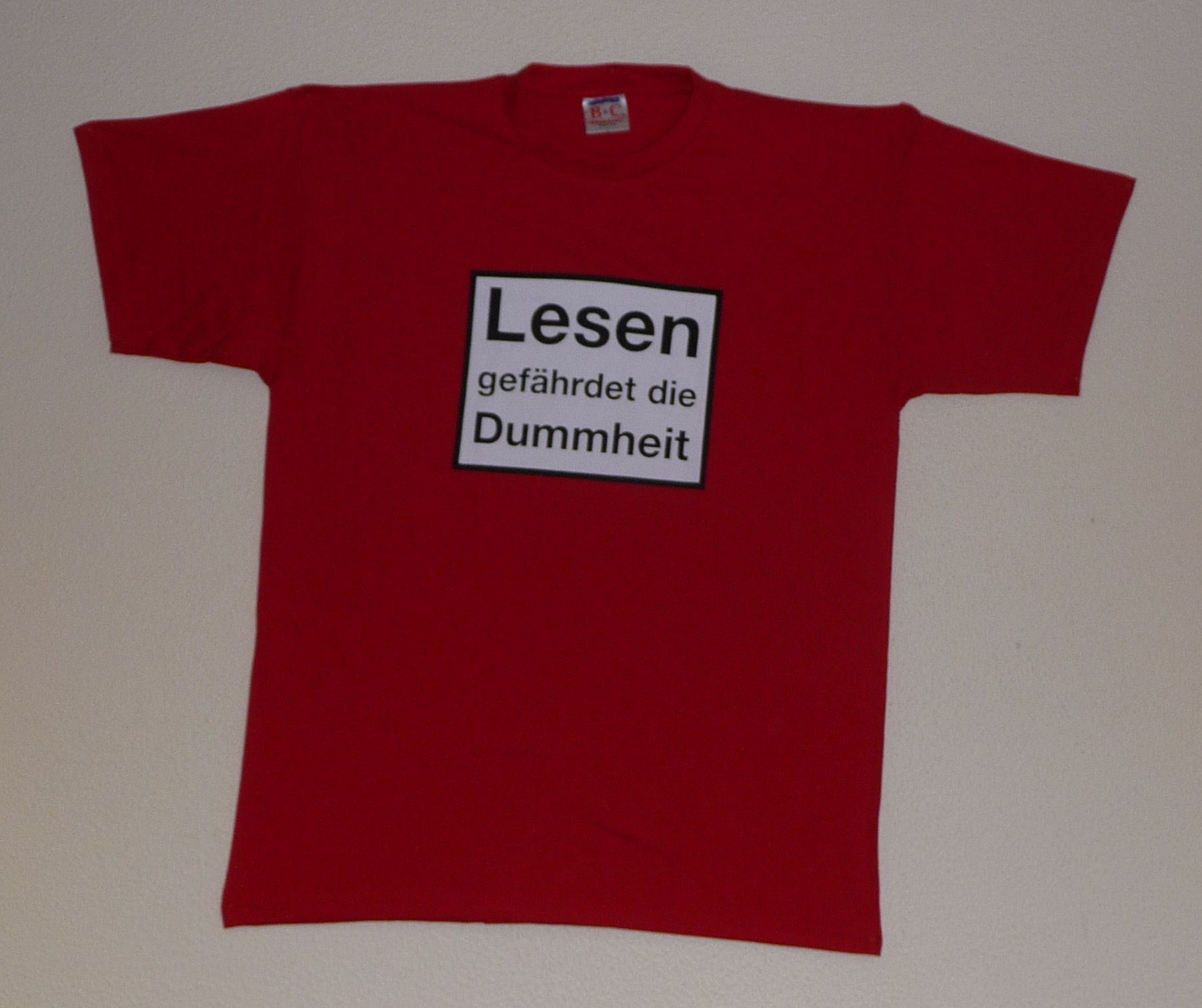 Heinrich-Böll-Gymnasium (Ludwigshafen), Germany